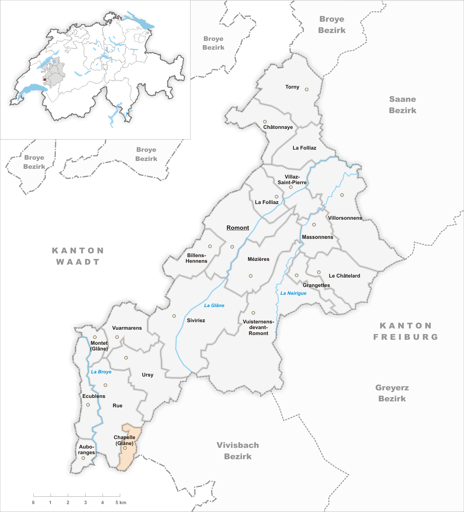 Municipality Chapelle (Glâne)